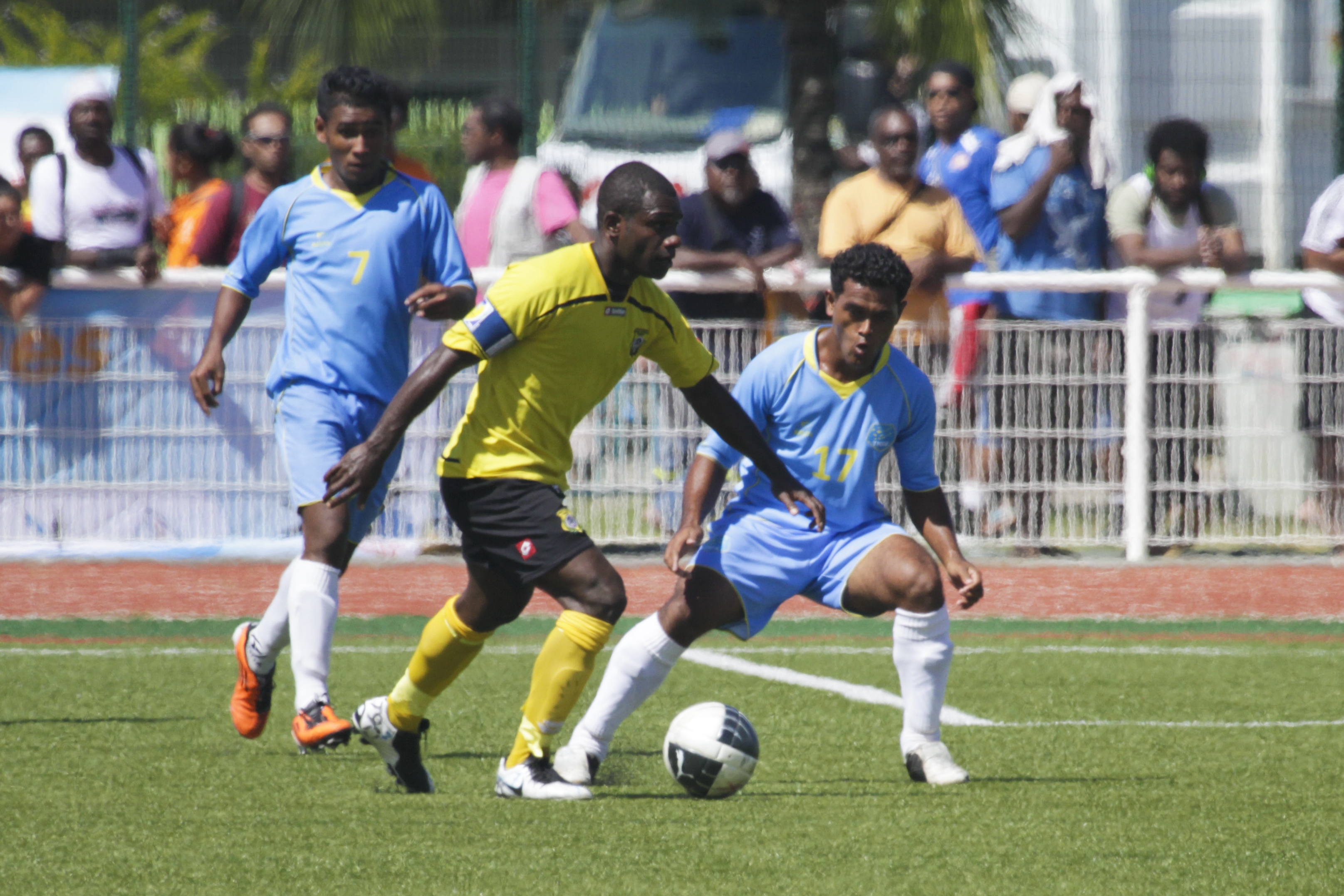 Uota_Ale_02